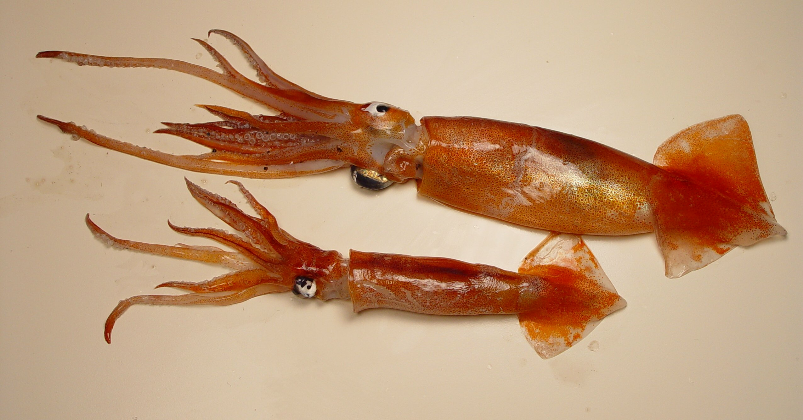 A short-finned squid ( Illex coindetii )